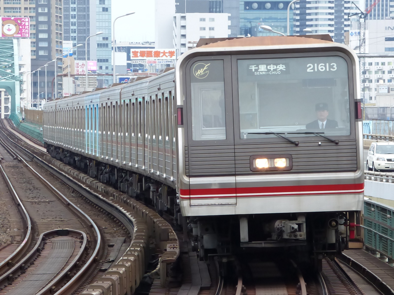 Osaka Subway 20 series EMU set 21613